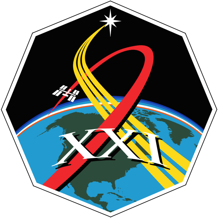 2013 NASA astronaut candidate Anne McClain: We just designed our class patch. We have a symbol of a star just taking off from the Earth and going somewhere out into space because the missions that NASA is looking at are so diverse right now, some of us are going to end up on the International Space Station, some of us might go to an asteroid, some of us might go to Mars…